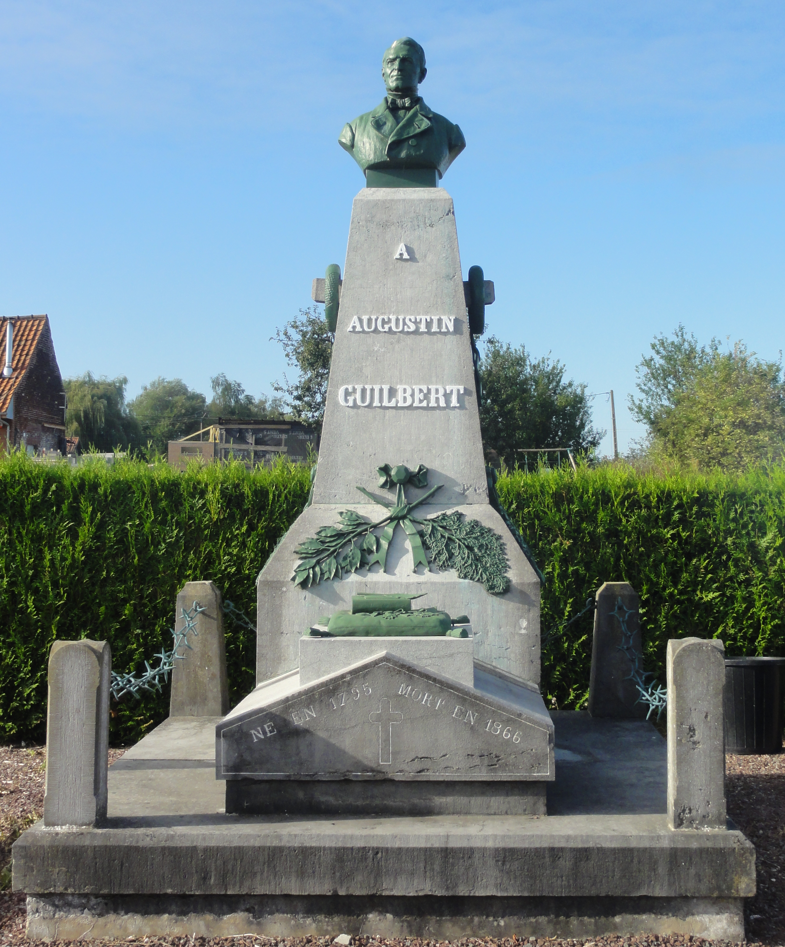 Grave of Q15969140 Depicted place: Q67929200